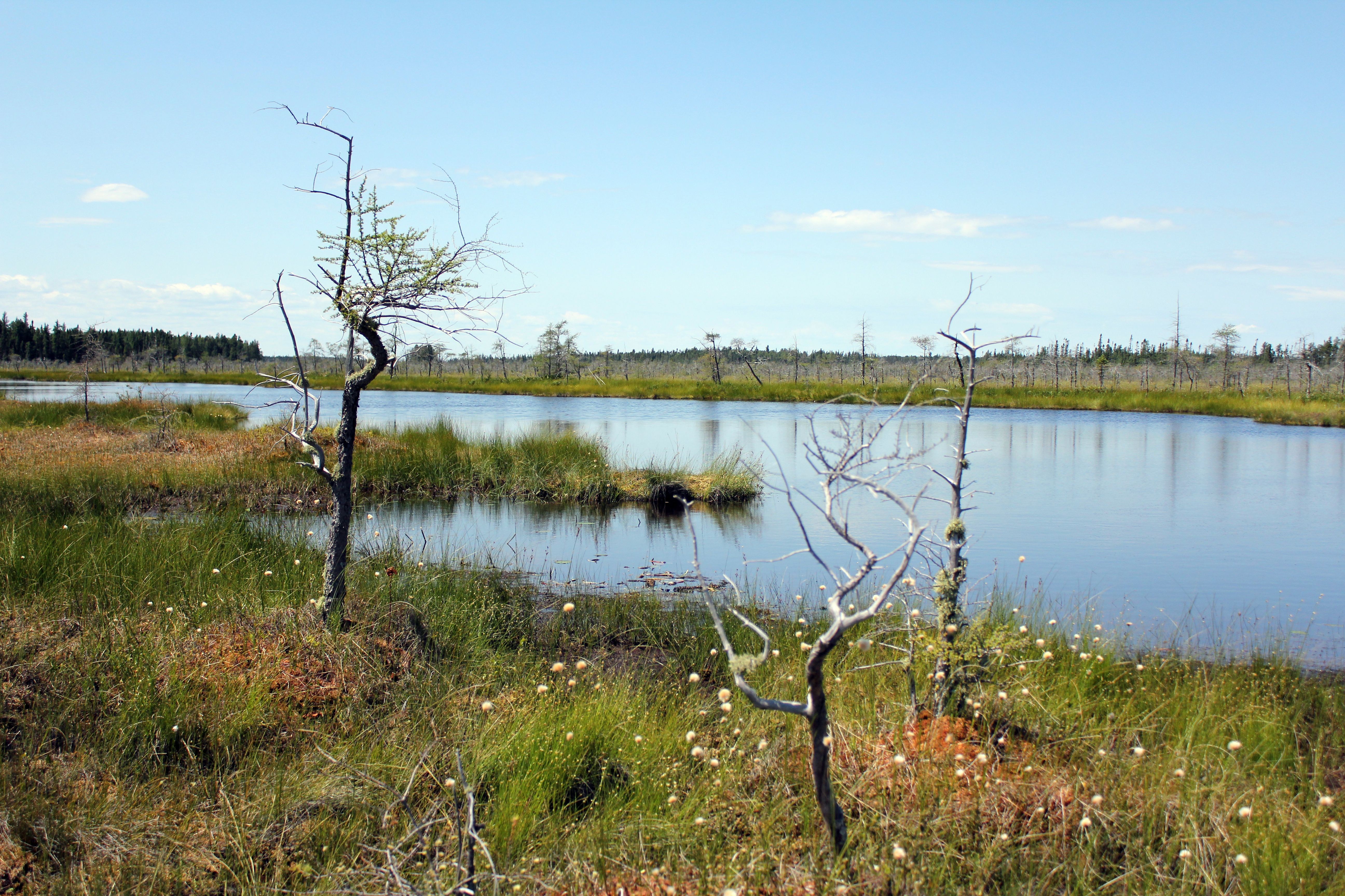 Canada bog